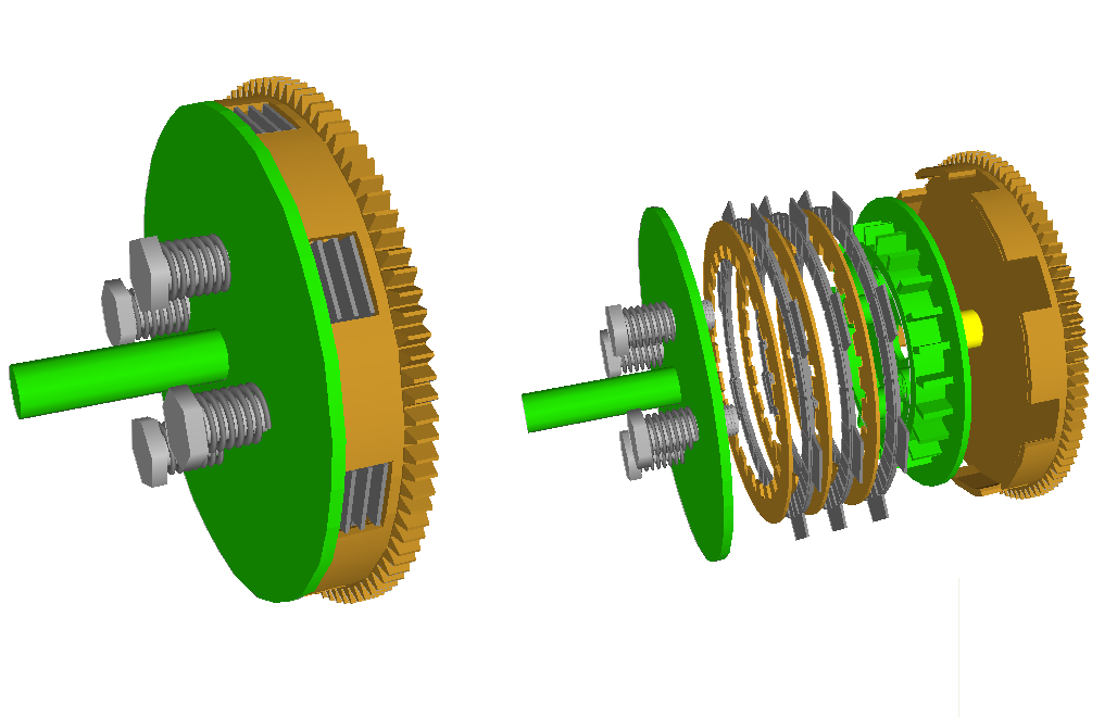 A snapshot of a 3D model of a basket clutch. Uploaded to wikipedia with permission granted by the AT CAD Team.